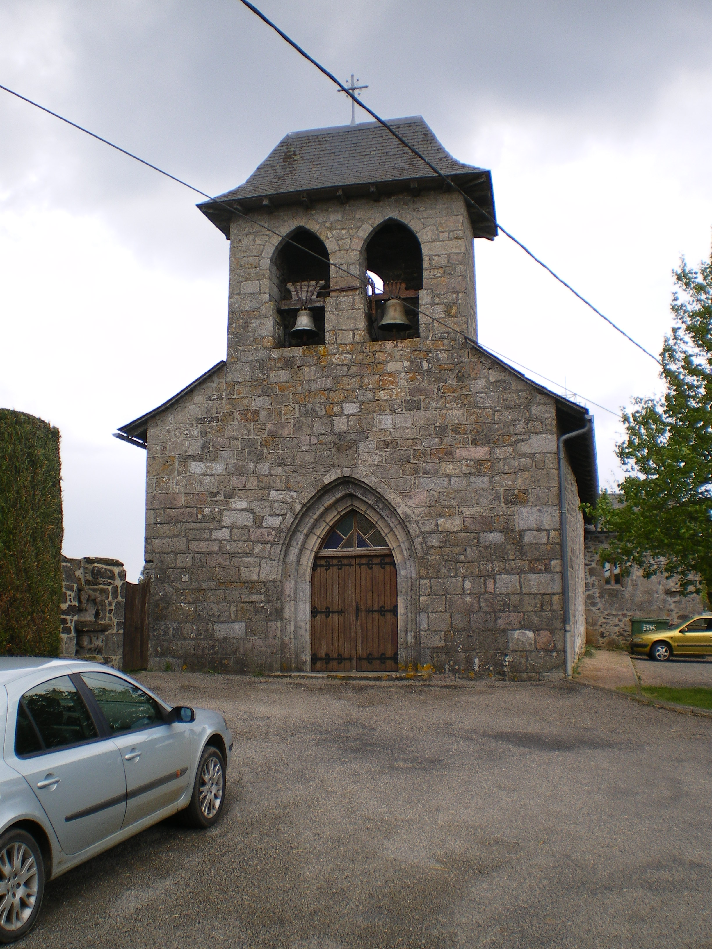 Labastide-du-Haut-Mont church, Lot, France